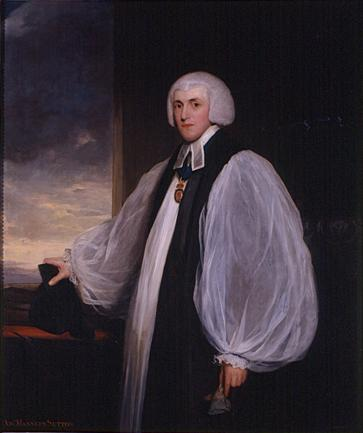 Portrait of Charles Manners-Sutton (1755–1828), Archbishop of Canterbury.